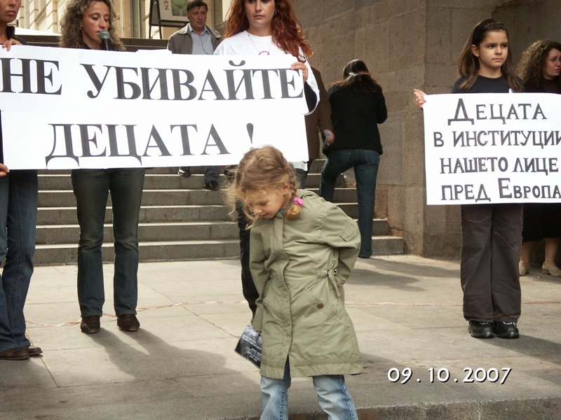 Protest of Bulgarian mothers following the screening of "Bulgaria's Abandoned Children"